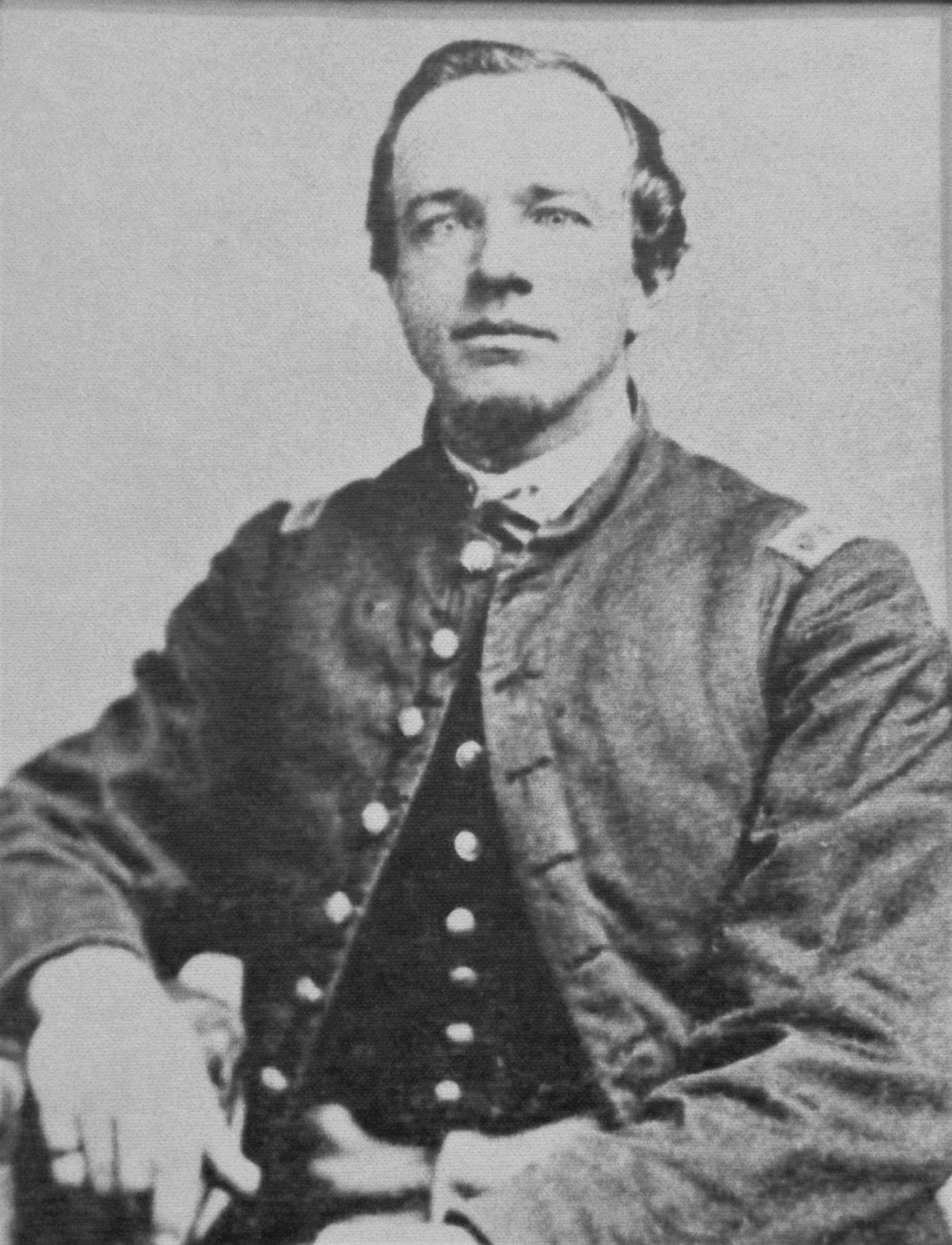 William Henry Harrison Reddick, Union Army soldier and participant in the Great Locomotive Chase.